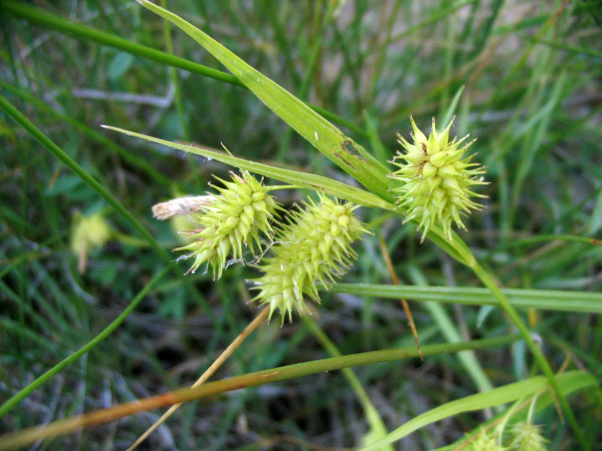 Carex hystericina Muhl. ex Willd. - bottlebrush sedge